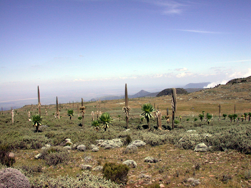 Lobelia rhynchopetalum, at about 4000m in the Bale Mountains.